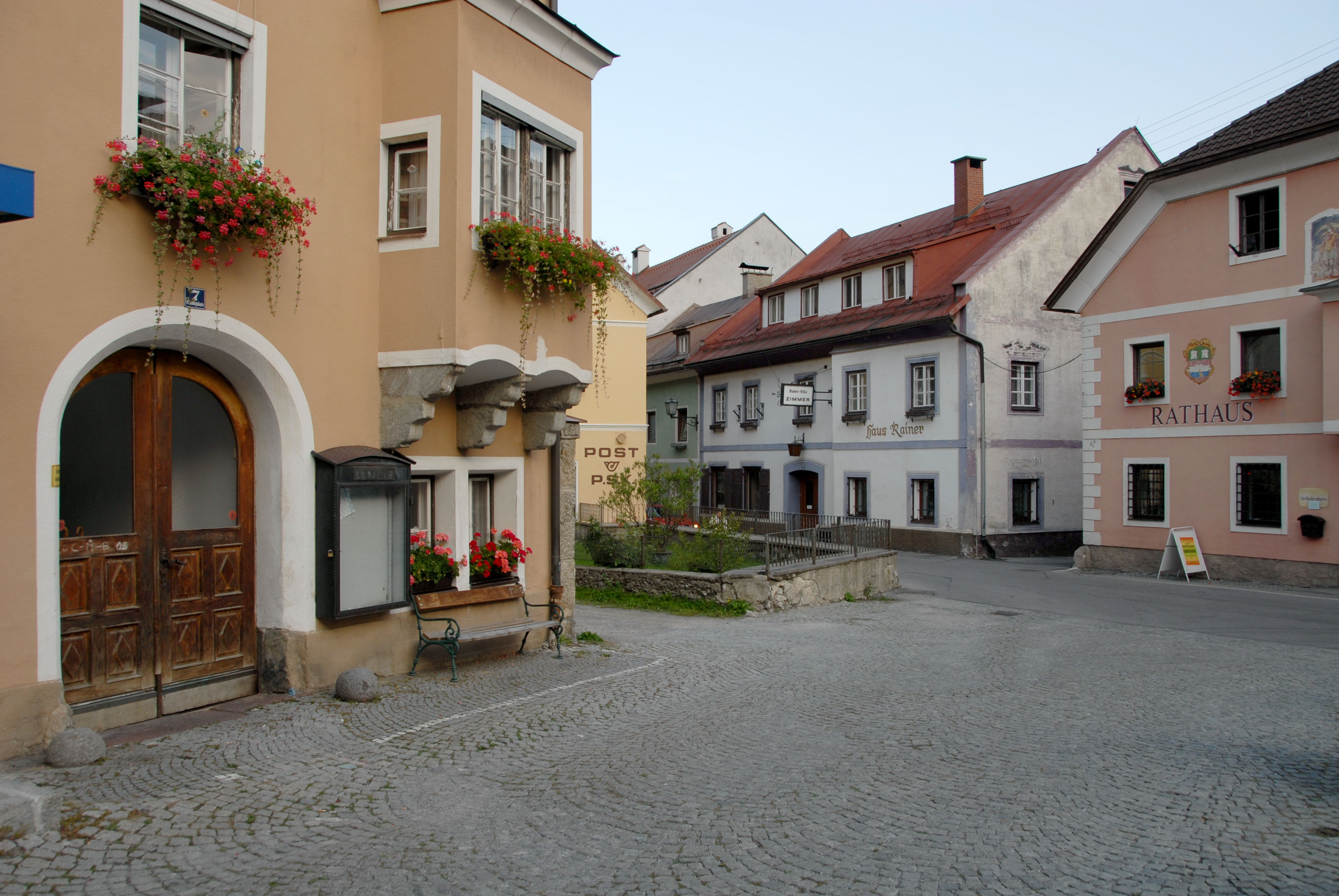 Main square of Oberdrauburg, district Spittal on the Drava, Carinthia, Austria